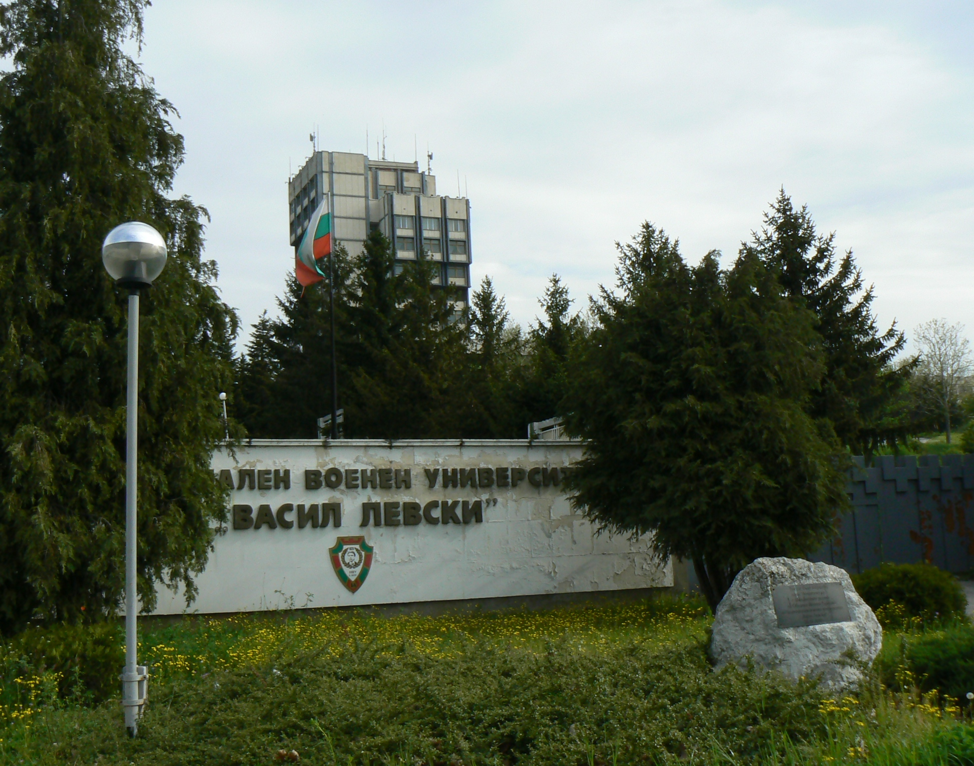 National military university "Vasil Levski" in Veliko Tarnovo, Bulgaria